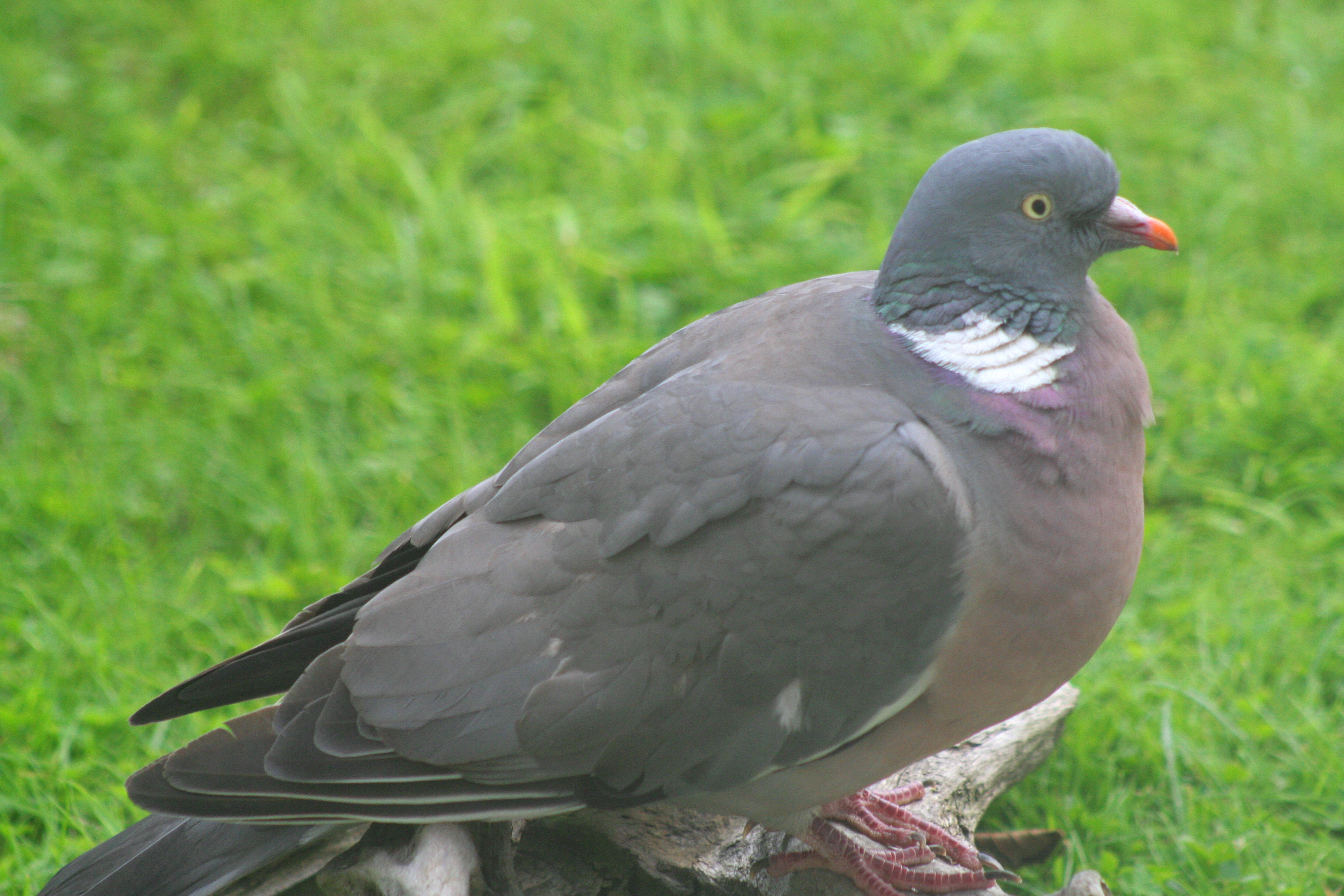 This woodpigeon and it's mate have become regular visitors to my driftwood bird feeder now that the sparrows have deserted me. Both of them are huge and obviously incredibly well fed - they are about 1.5 times the size of feral pigeons you see in cities and other urban settings. Explore 11th August 2007 # 211